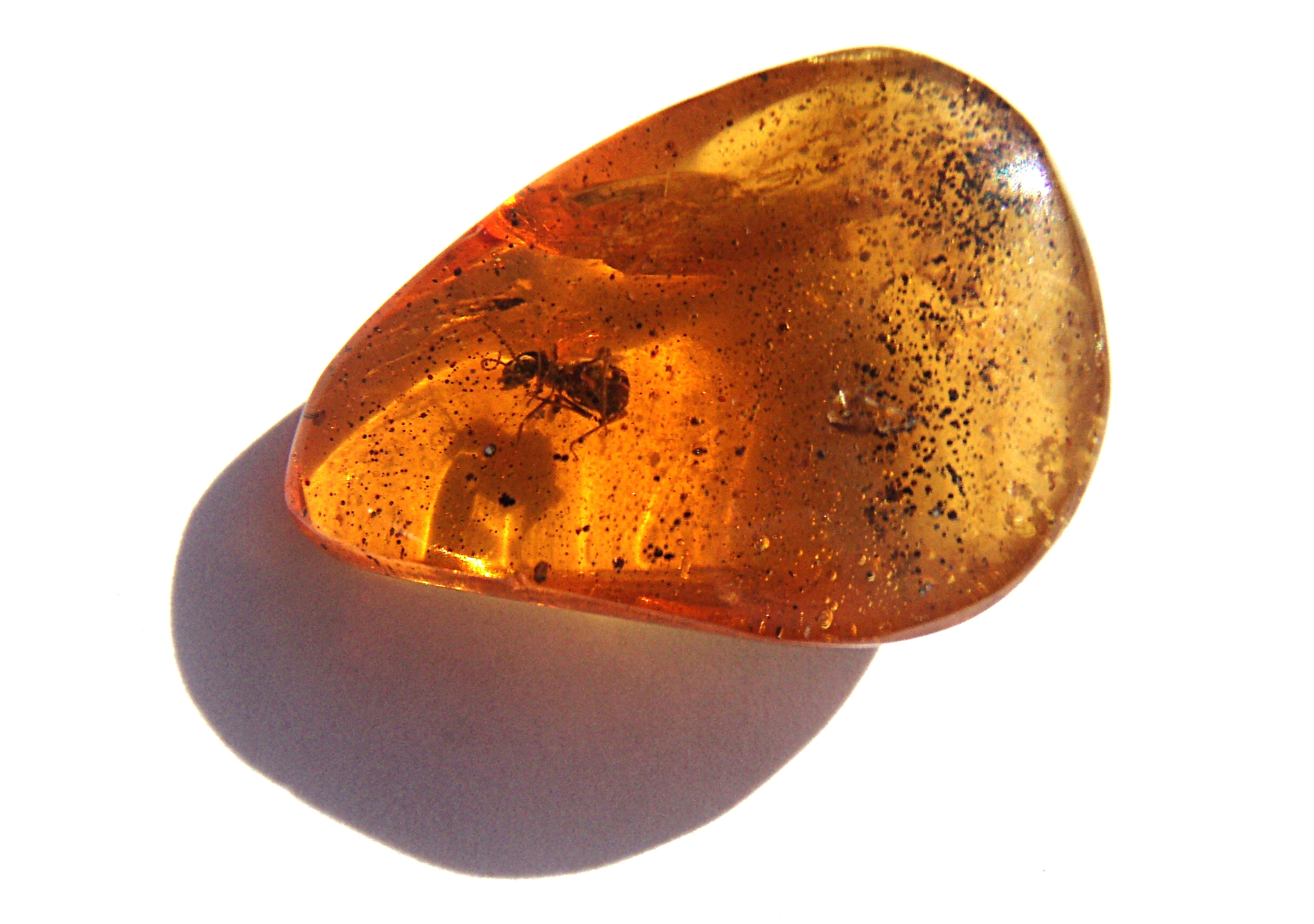 An ant in amber